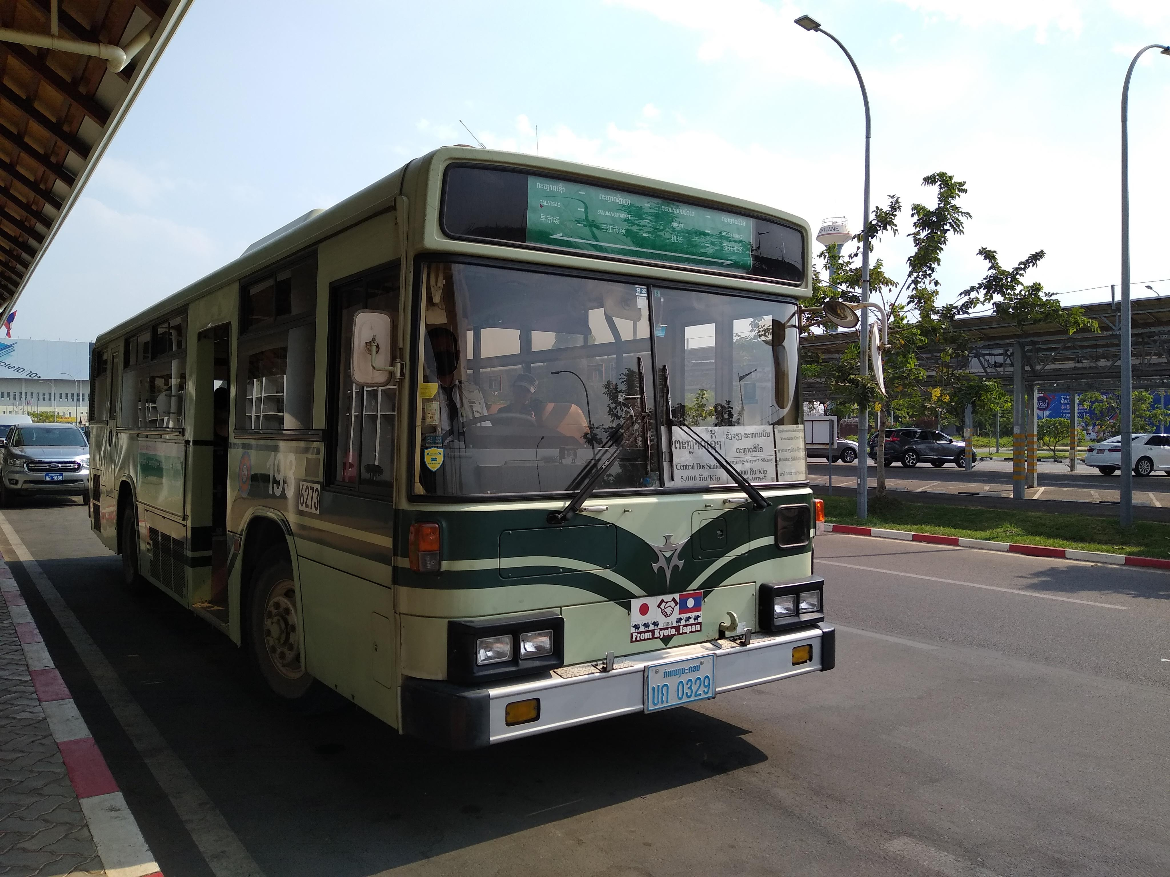 An airport shuttle bus waiting for passengers to board at Wattay International Airport in Vientiane, Laos.